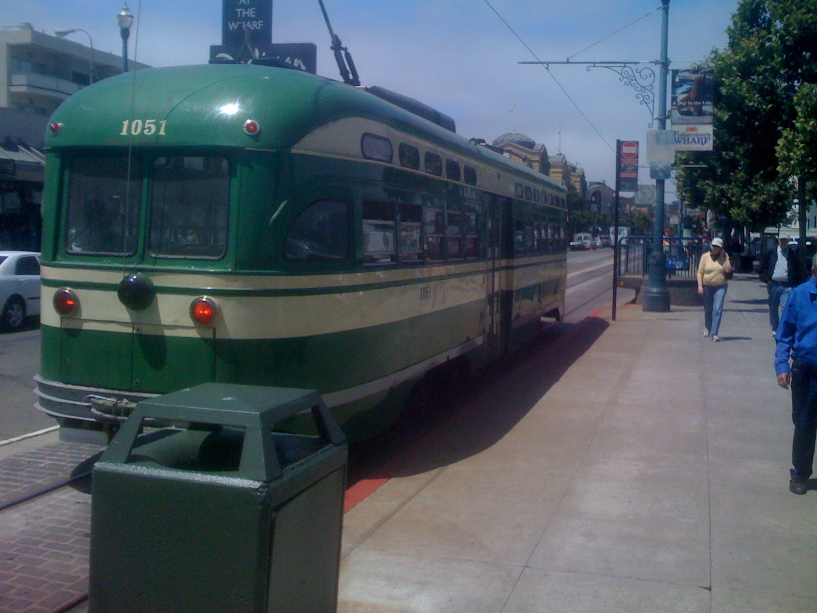 No. 1051 built 1948 painted to honor SF 1960s